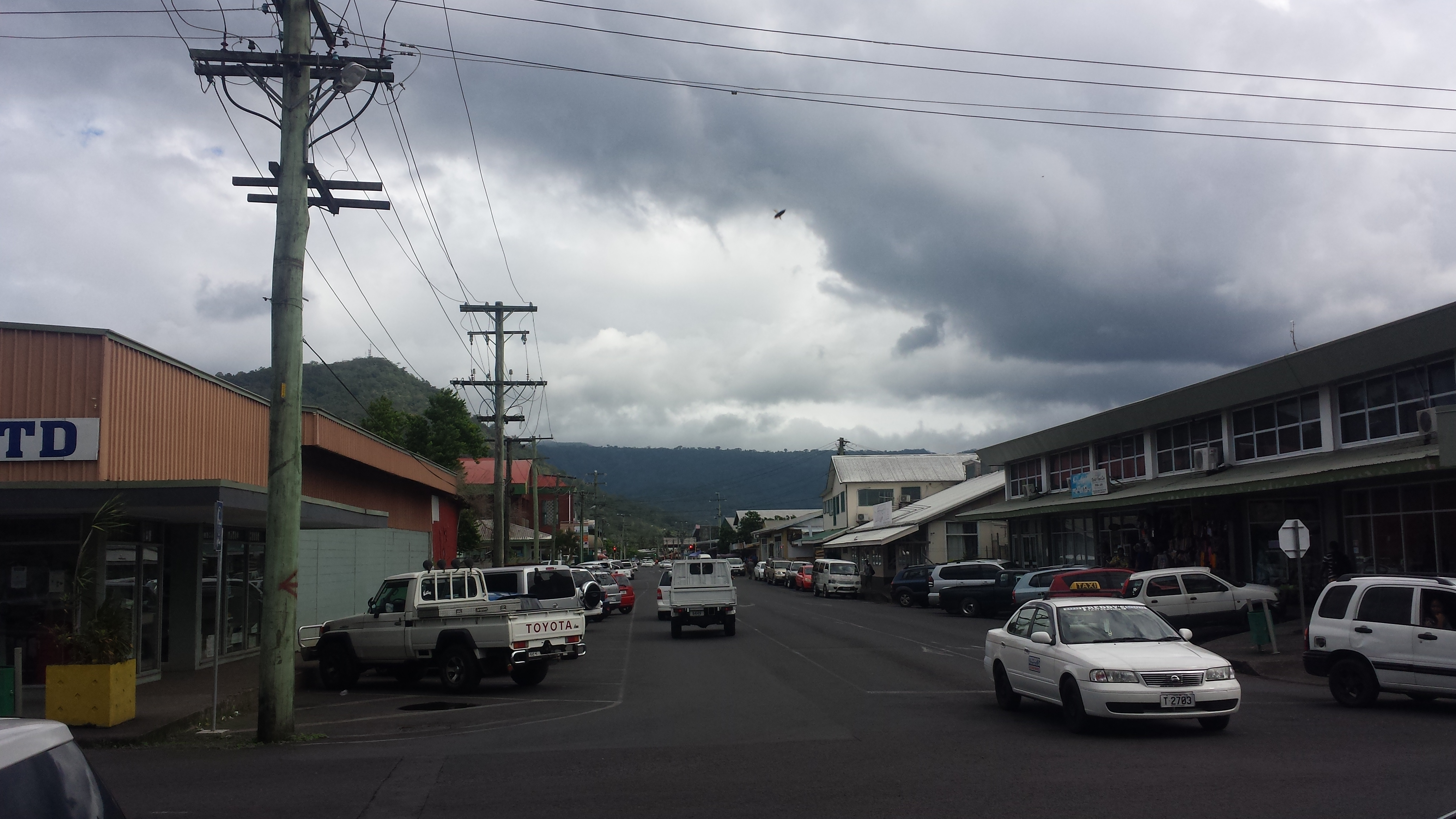 View of a street in Apia, Samoa. August 2016.